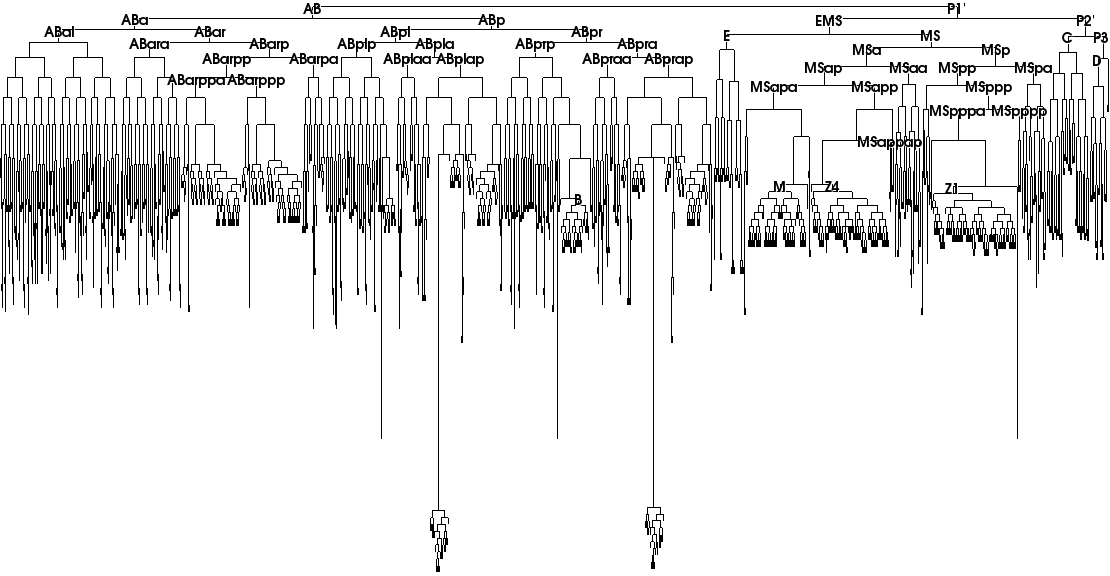 Complete cell lineage of C. elegans. The history of cellular divisions that sequentially tracks the parents of a particular cell up to its original ancestor, the zygote cell, is called cell lineage. Simple organisms such as the C. elegans worm tend to have a deterministic cell lineage, meaning that for any given embryo, the cells divide following exactly the same pattern. More complex organisms tend to have a deterministic lineage only in the early stages of embryogenesis and then, as large numbers of cells of similar type are required, they tend to generate these cells by following non-deterministic, although likely sterotypic, patterns. Studying the cell lineage of an organism is important because it helps in the understanding of how a particular cell defines its fate in the organism. It also helps to understand how mutations and environmental factors may perturb the embryogenesis process and result in malformed organisms. In the context of studying gene functionality, the cell lineage also provides a baseline layer upon which the behavior of genes can be laid out across space and time as the organism develops.